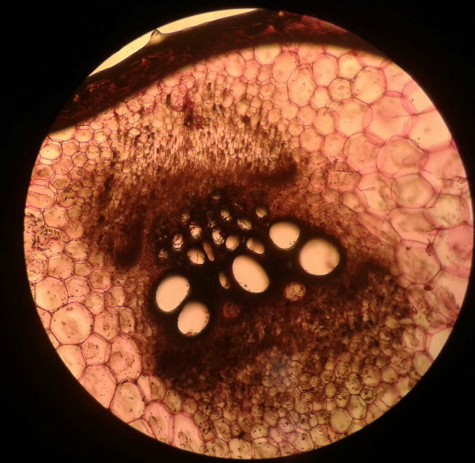 The section of sprout pumpkin plant